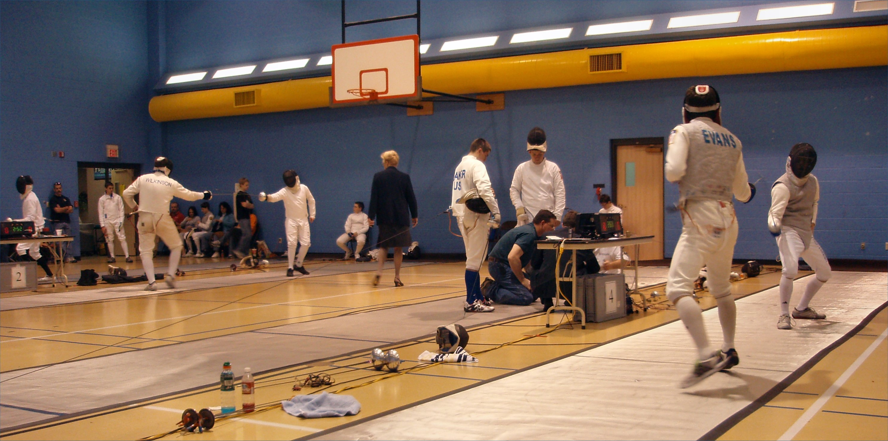 Amarillo Open tournament, Feb. 2007